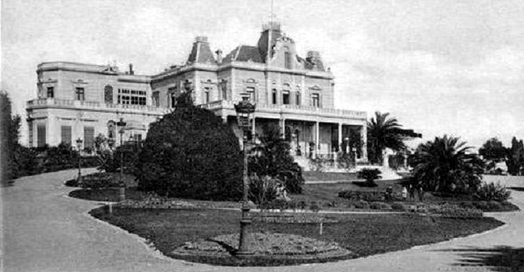 The Unzué Palace, formerly located on the corner of Agüero and Guido streets, in Recoleta, Buenos Aires. Built in 1887, the mansion was designed by Martín Vismara and A. Gonsález for Mariano Unzué. Expropriated in 1938 due to tax debts, the mansion served as the Mitre Public Kindergarten and, from 1942, as the Official Residence of the President of Argentina. First Lady Eva Perón died here in 1952, and following the 1955 overthrow of her widower, President Juan Perón, the mansion was demolished in 1956 during a wave of political revenge against the deposed administration. The main building of the National Library was later built on this site.[1]